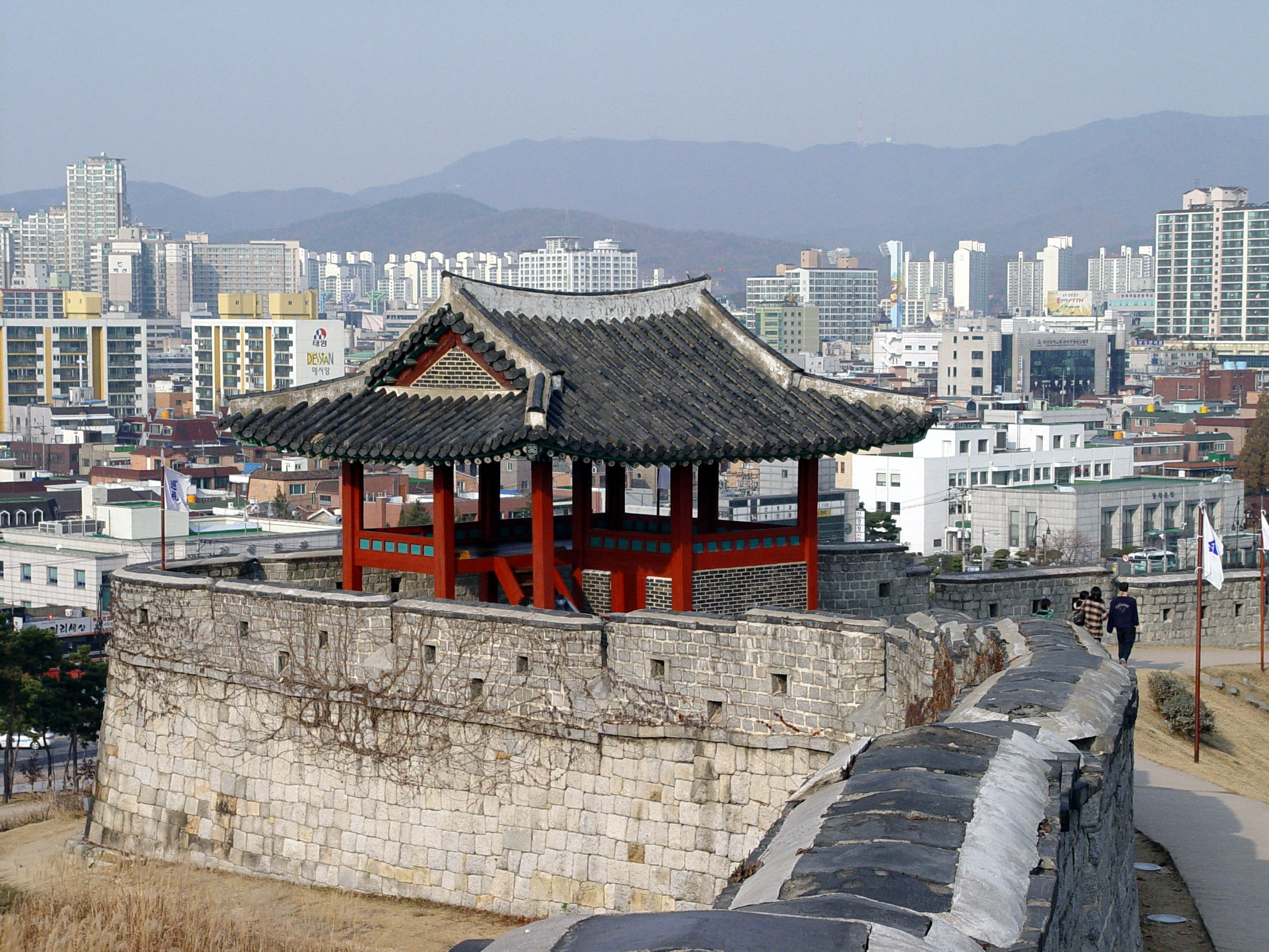 The west side of Seobukgangnu, Hwaseong Fortress, Suwon, South Korea